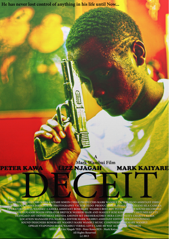 A thrilling Drama places you in the home of TED, as he walks into their bedroom and locks the door. It's too clean, with a sense of structure and order. SHEILA, his wife, is seeming to prep for bed. He approaches her standing close but with a noticeable distance. Sheila seems disturbed, struggling to keep calm. Ted has never lost control of anything in his life until now.